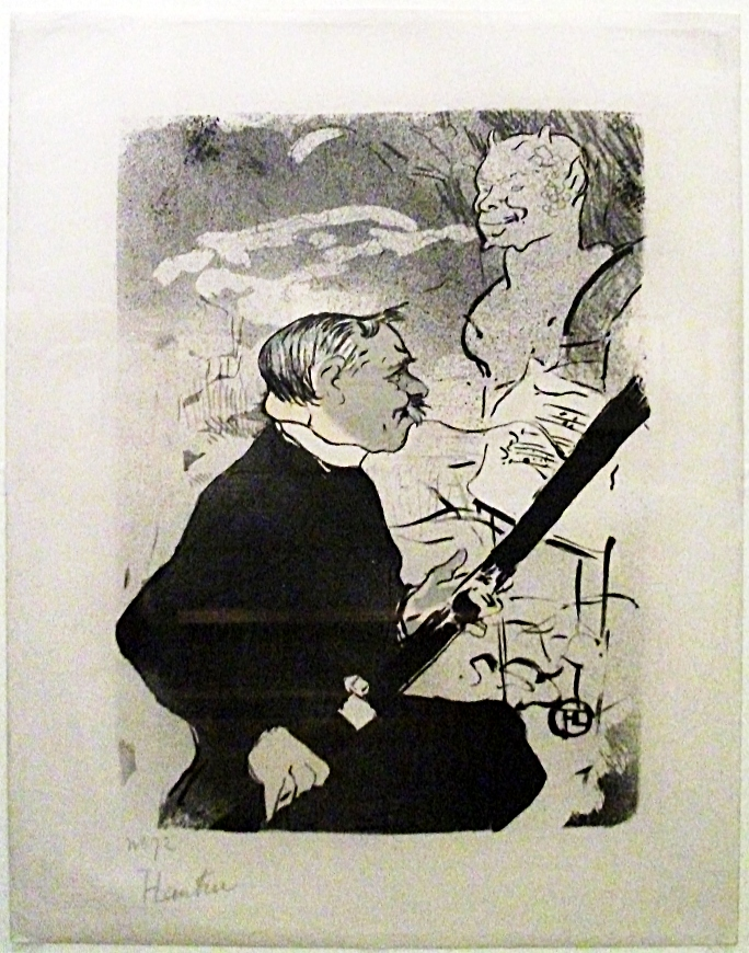 Pout toi!... by Henri de Toulouse-Lautrec. 1893 brush crayon and spatter lithograph. Shows musician Desire Dihau playing his bassoon. On display in Bedford Museum's "High Kicks and Low Life" exhibition.